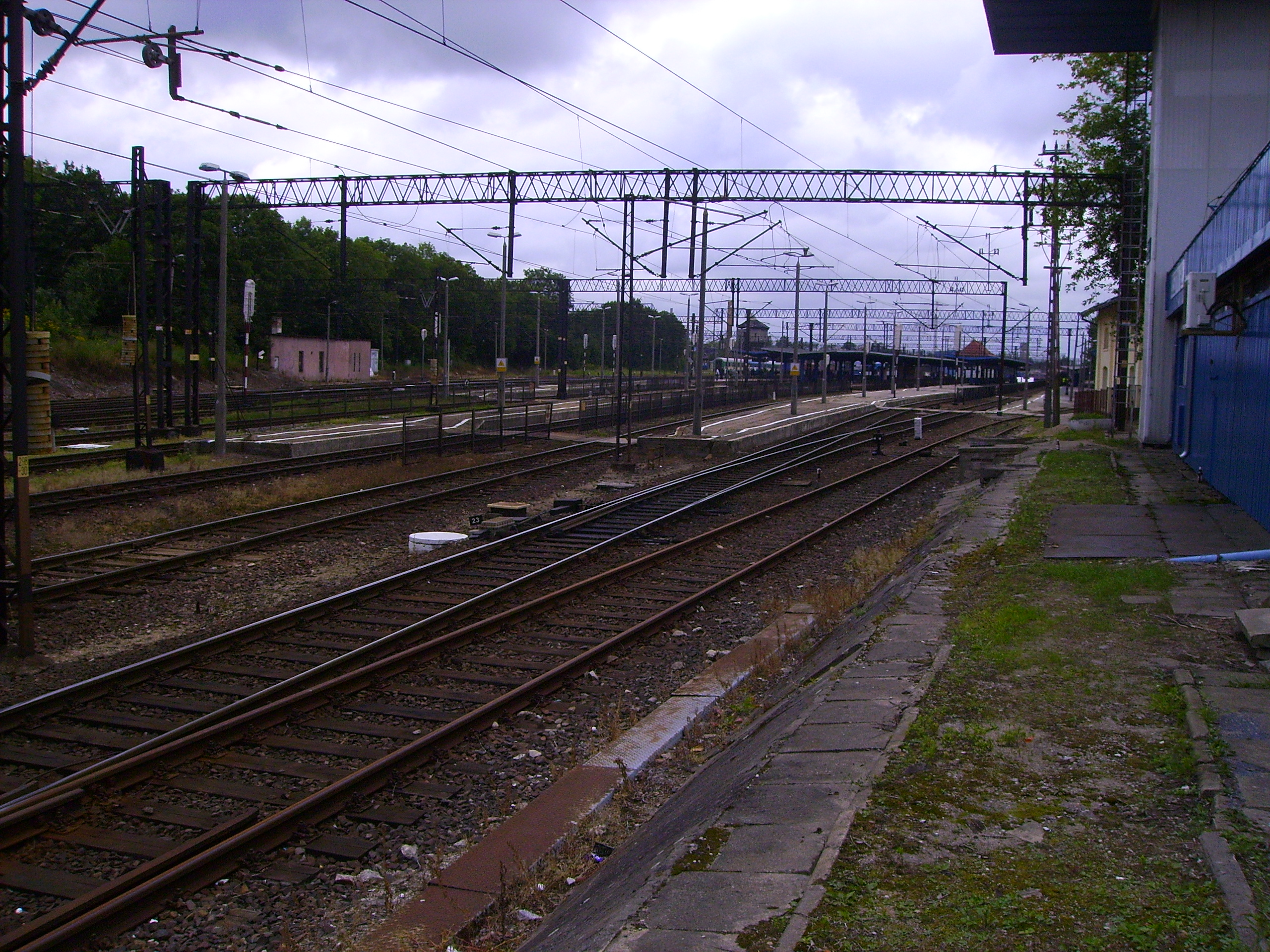 View on the railway tracks entering Olsztyn Główny (Olsztyn Central) from west.